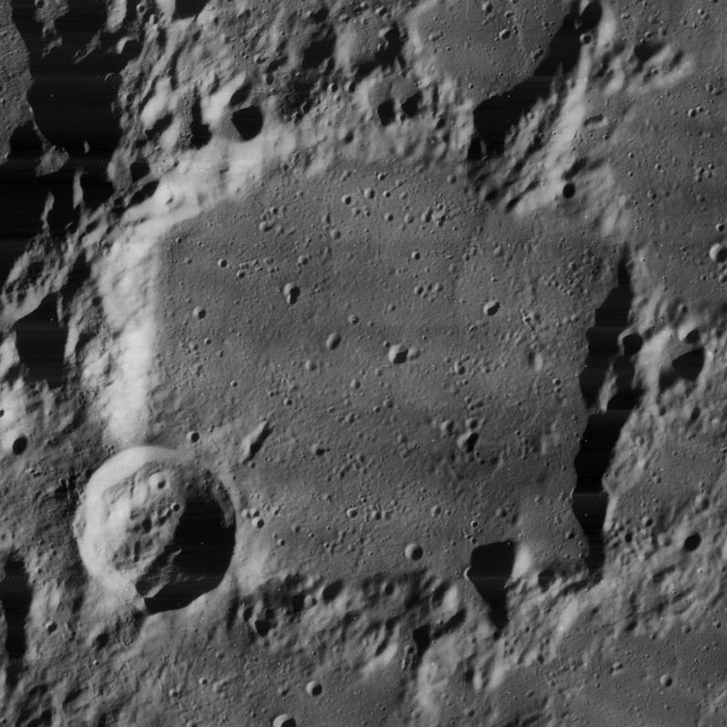 Barrow, on the moon.